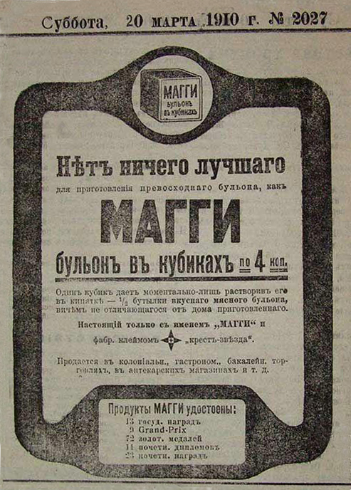 Advertisement for Maggi stock cubes in a russian newspaper from 1910.